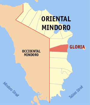 Map of Oriental Mindoro showing the location of Gloria